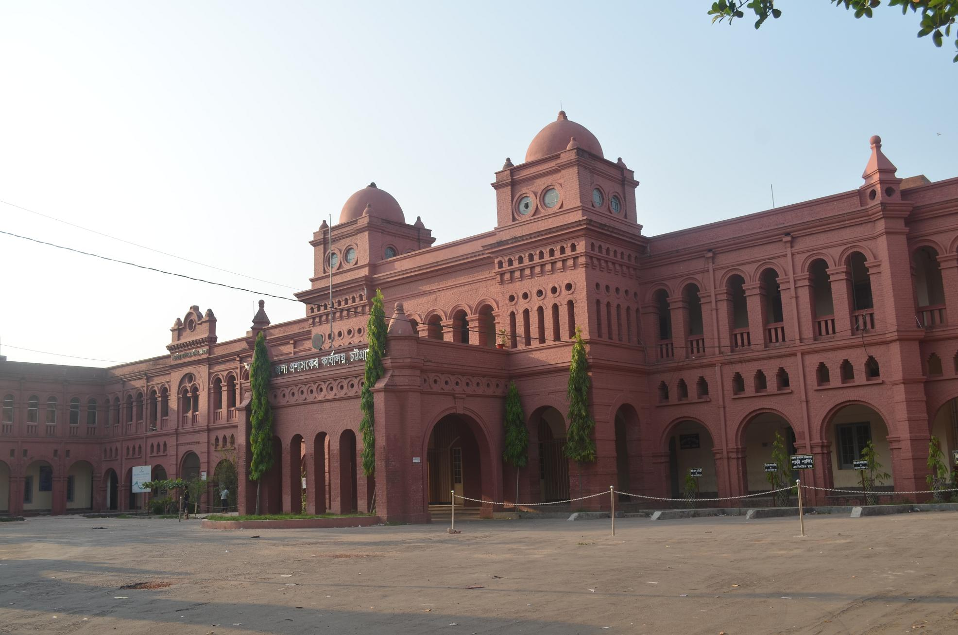 Office of District Commisonar of Chittagong, Court Building, Chittagong